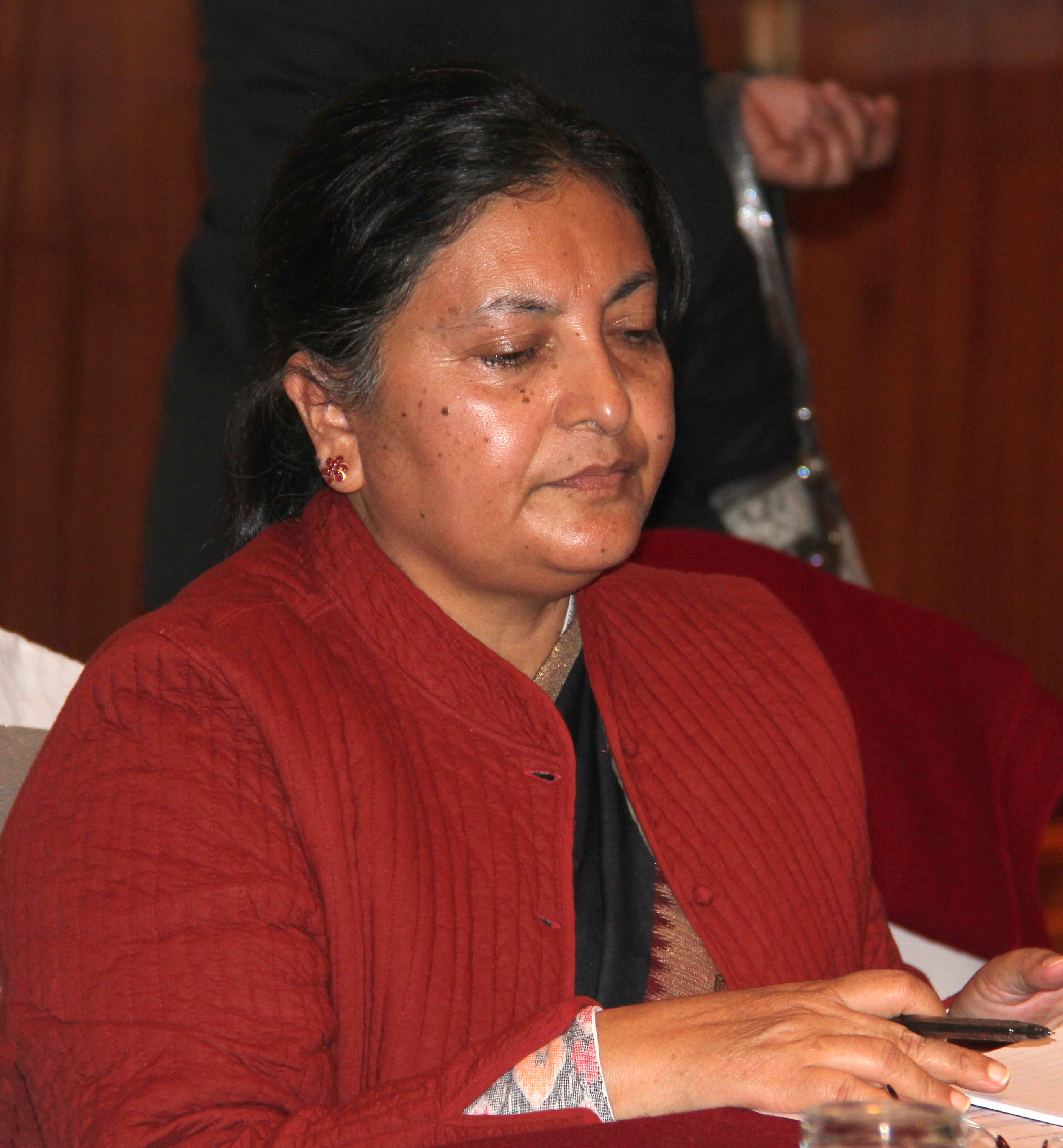 Vidhya Bhandari in a program on women's participation in politics.